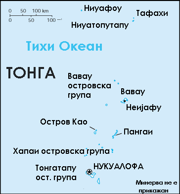 Map of Tonga on Macedonian language.